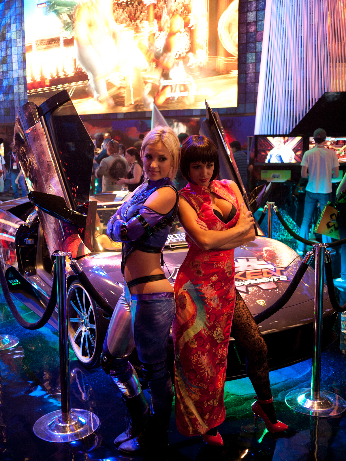 This photo was taken on June 30, 2012.